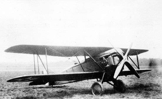 The sole prototype of the Boeing XP-4, an experiemental American fighter aircraft of the mid 1920s.